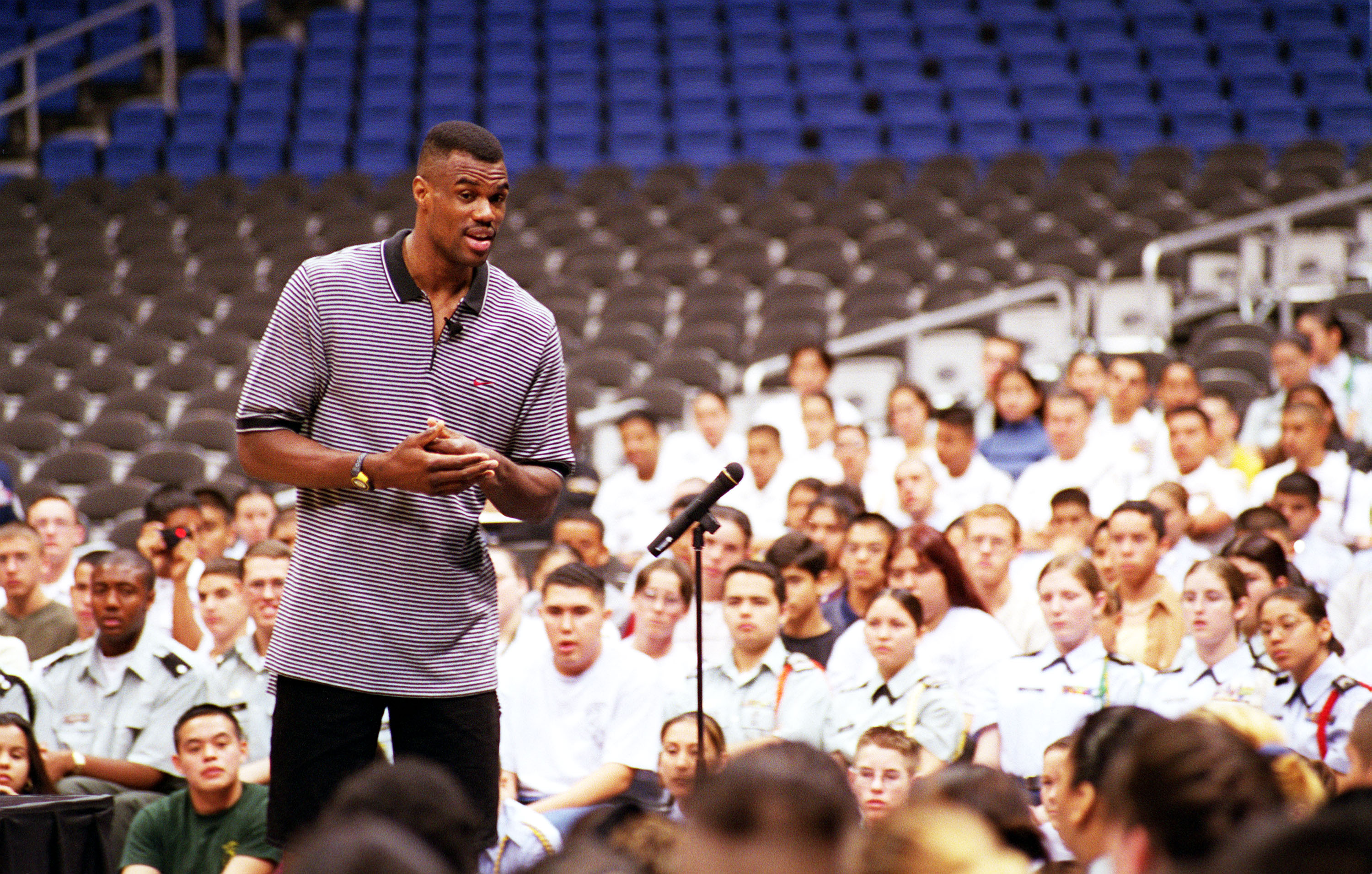 San Antonio Spurs' player David Robinson, a graduate of the U.S. Naval Academy, speaks about his experiences in the Navy to Junior ROTC cadets at the Alamo Dome, March 3, 2000. Robinson was able to provide many personal insights on how his experiences in the military had helped him develop the attitude and personality traits that lead him to success in other aspects of his life.